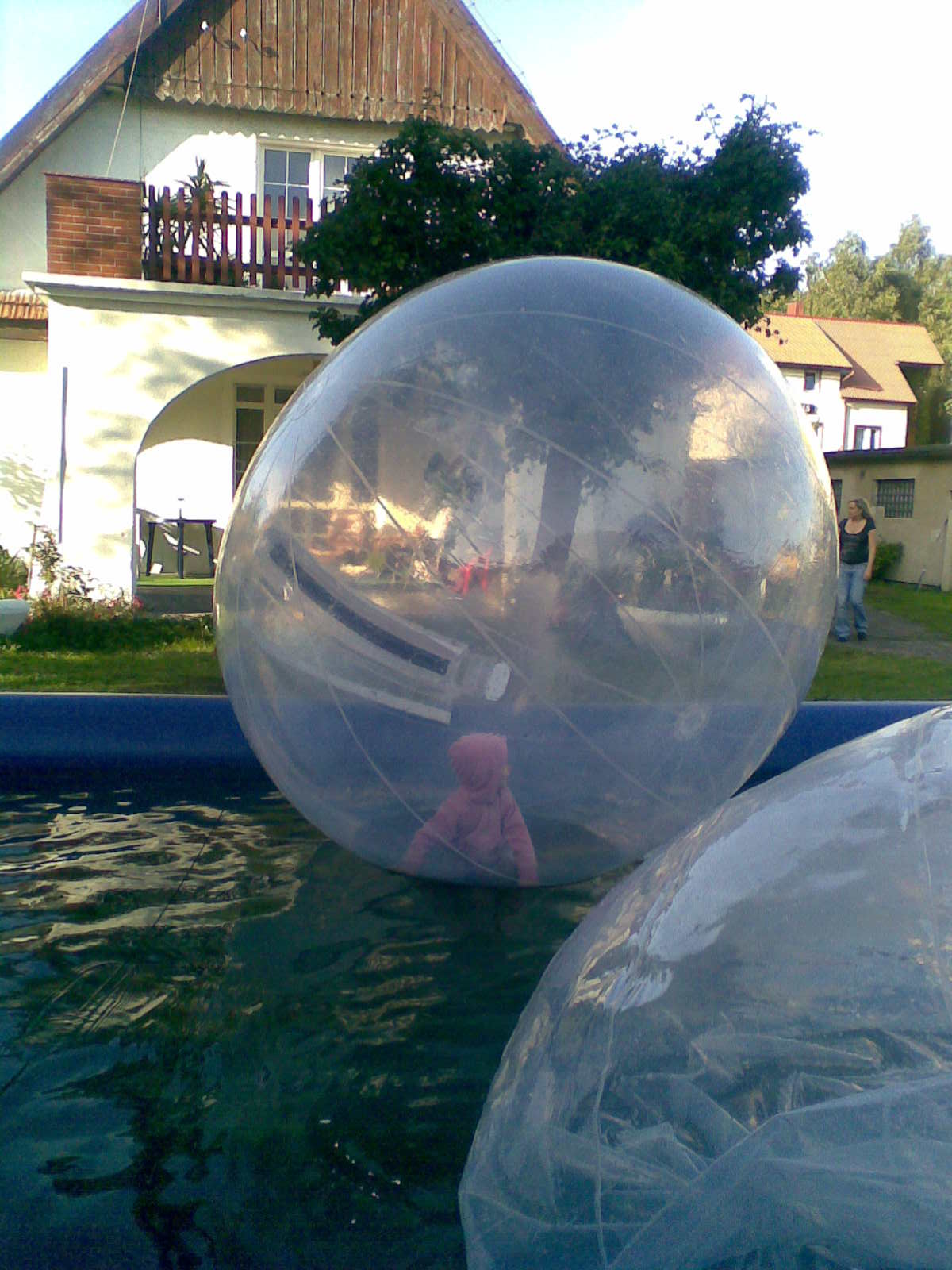 Water ball toy in Jastarnia (Poland)